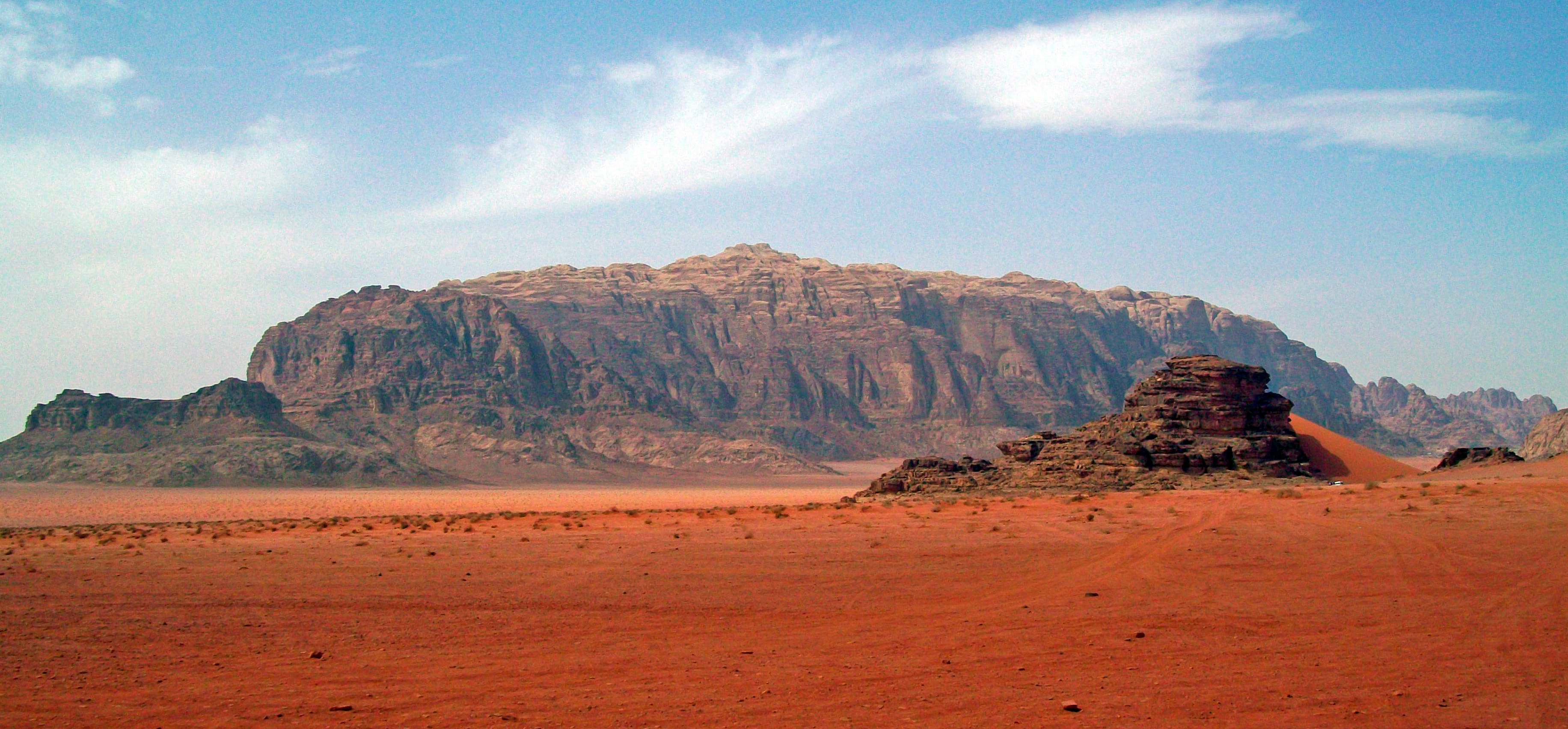 Jabal Ramm, the second-highest mountain in Jordan, in Wadi Rum